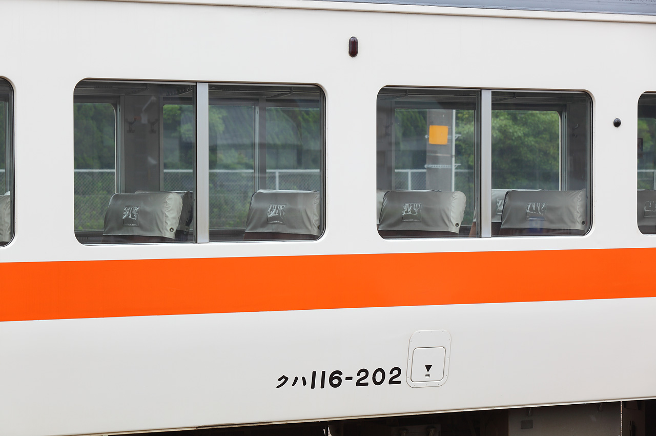 JNR 117 series EMU, belongs to the JR Central.